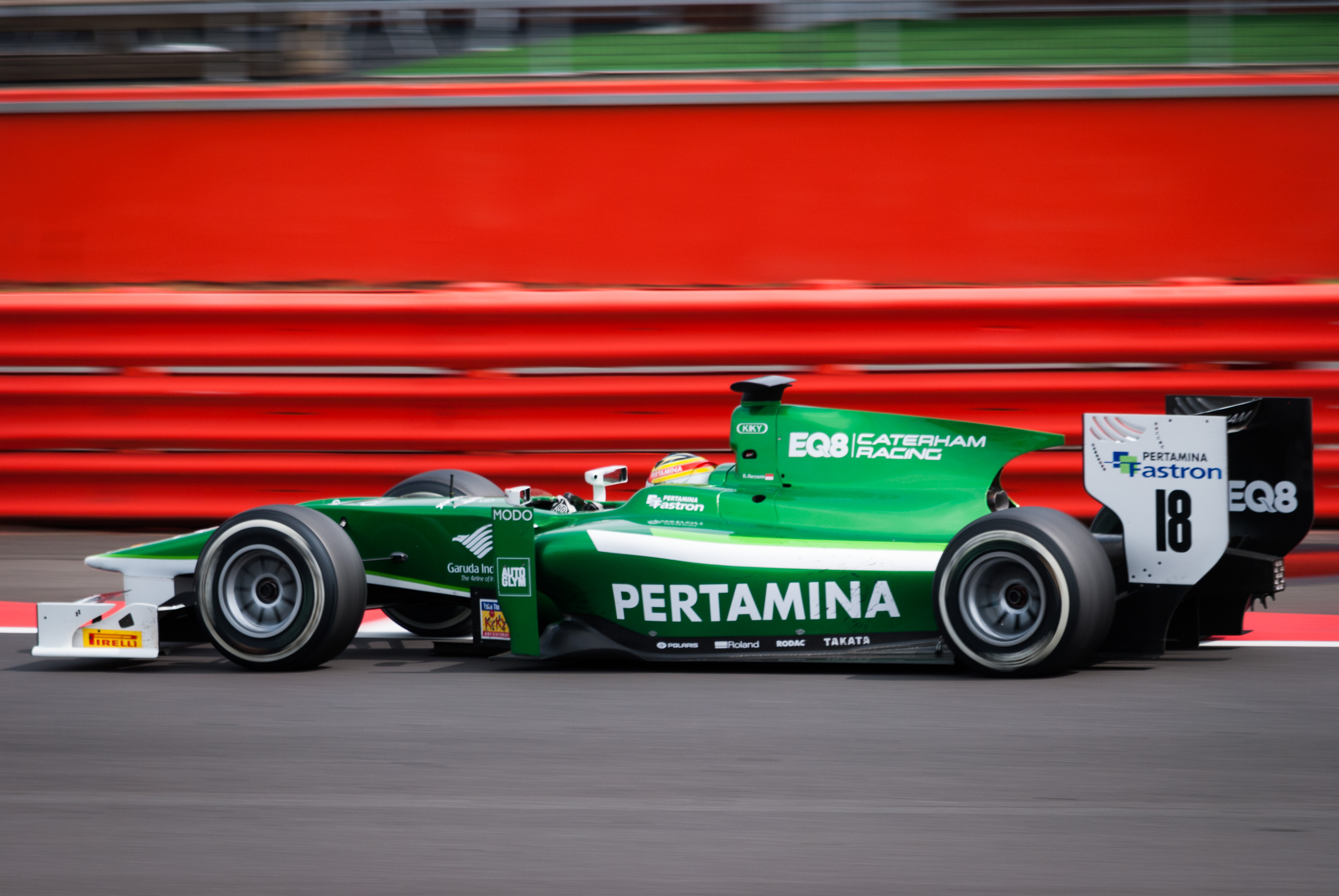 Rio Haryanto driving for Caterham Racing at Silverstone. Round 5 of the 2014 GP2 Series Championship.